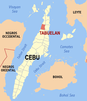 Map of Cebu showing the location of Tabuelan